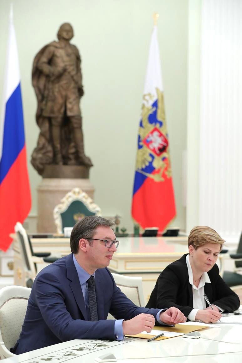 Meeting with Prime Minister of Serbia Aleksandar Vucic in Moscow